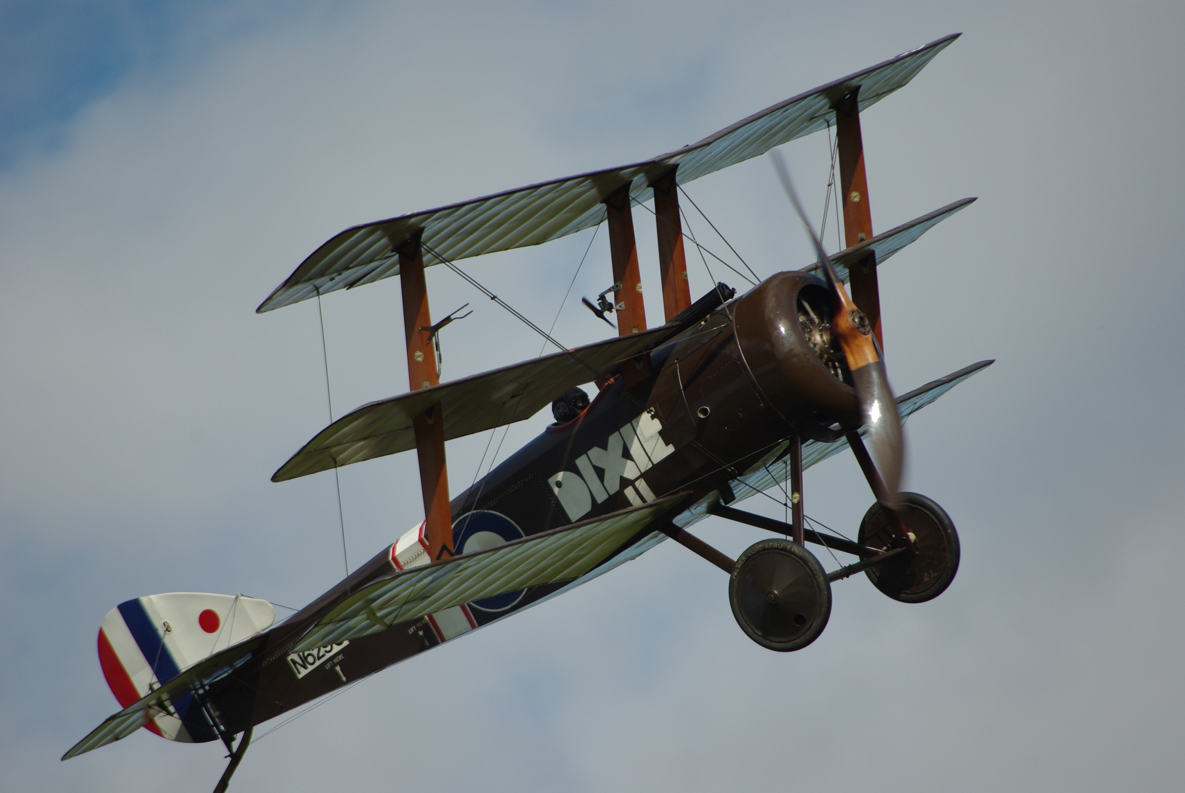 Sopwith Triplane G-BOCK ("N6290") at Shuttleworth Uncovered September 2013